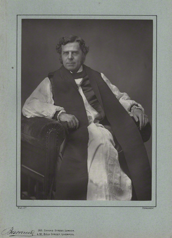 William Boyd Carpenter (1841-1918), Bishop of Ripon 1884-1912.